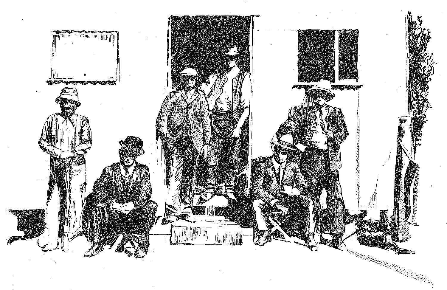 Drawing by Nicola Spijkerbosch, 2011. Drawn from a photograph of the Rotoma Tearooms and Post Office, taken in 1900s. The Post Office was opened in 1908. This building later became the Kettle Store and Tearooms (1948 onwards)